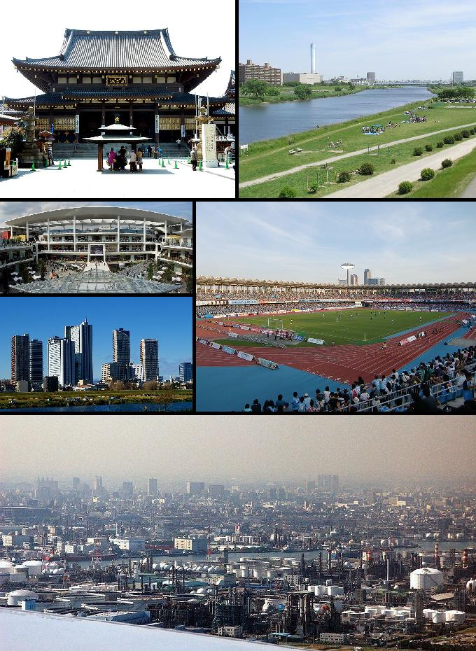 Kawasaki Daishi Temple, Tama River, Lazona Kawasaki Plaza, Musashi-kosugi, Todoroki Athletics Stadium, Keihin industrial area